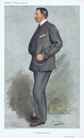 Caricature of Julian W Orde. Caption read "A Popular Secretary". Note : Orde was Secretary of the Royal Automobile Club.